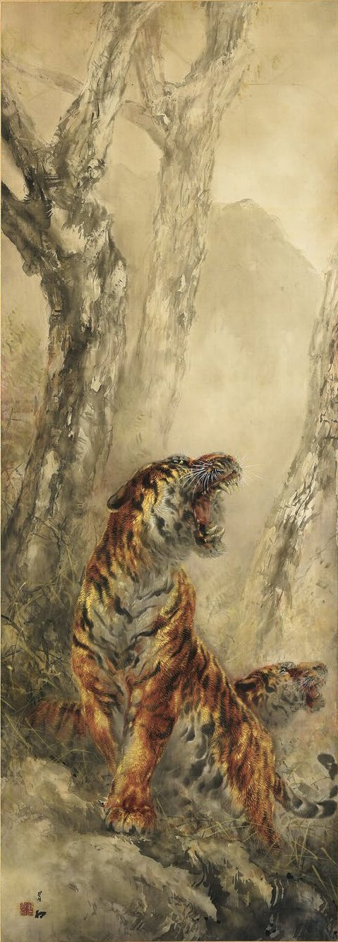 Fierce Tiger by Ōhashi Suiseki, ink and color on silk, 142 x 50.7 cm